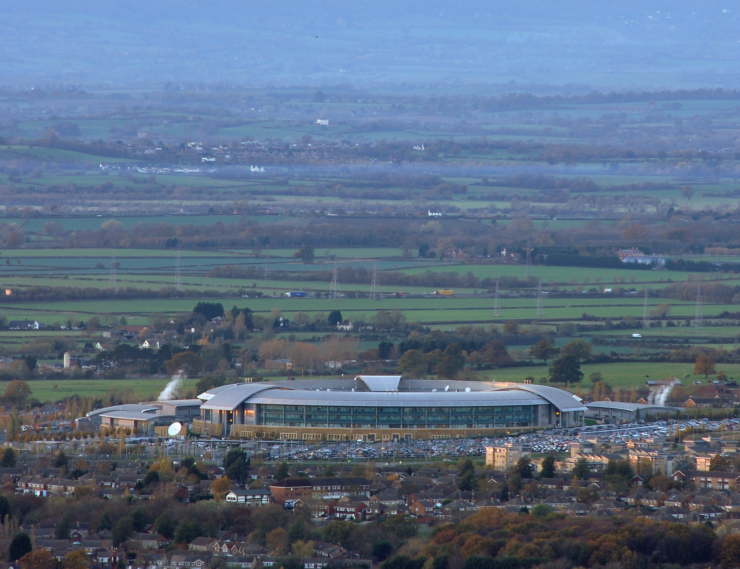 View to GCHQ in Cheltenham from Leckhampton Hill.